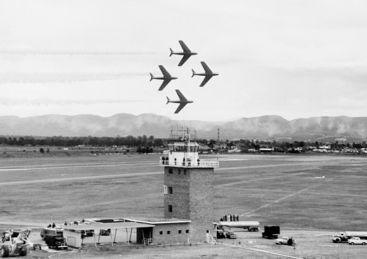 Richmond, NSW. Commonwealth Aircraft Corporation (CAC) Avon Sabres of the Black Diamonds aerobatic team performing at RAAF Base Richmond during an Air Force Week display.